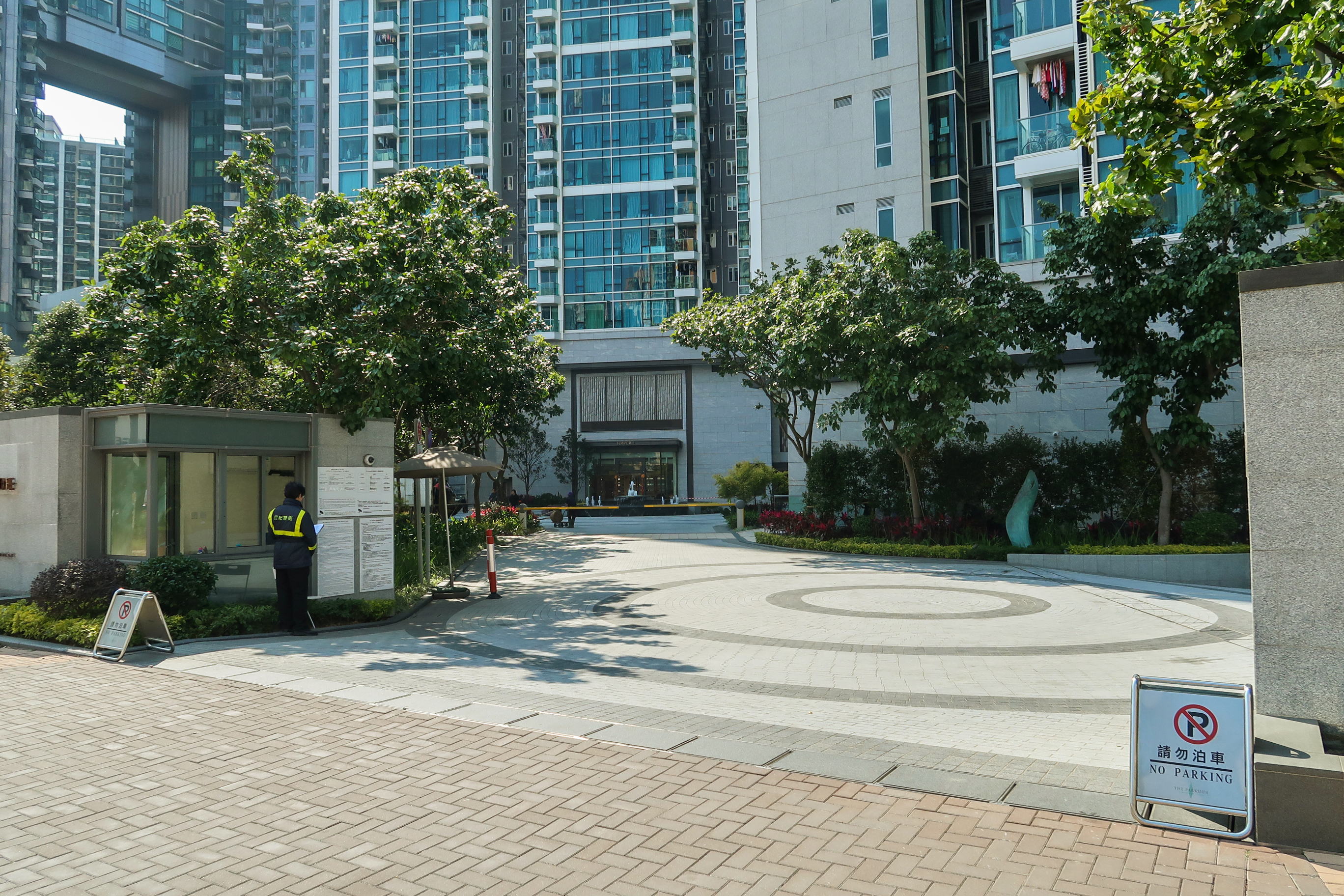 The Parkside Car Entrance